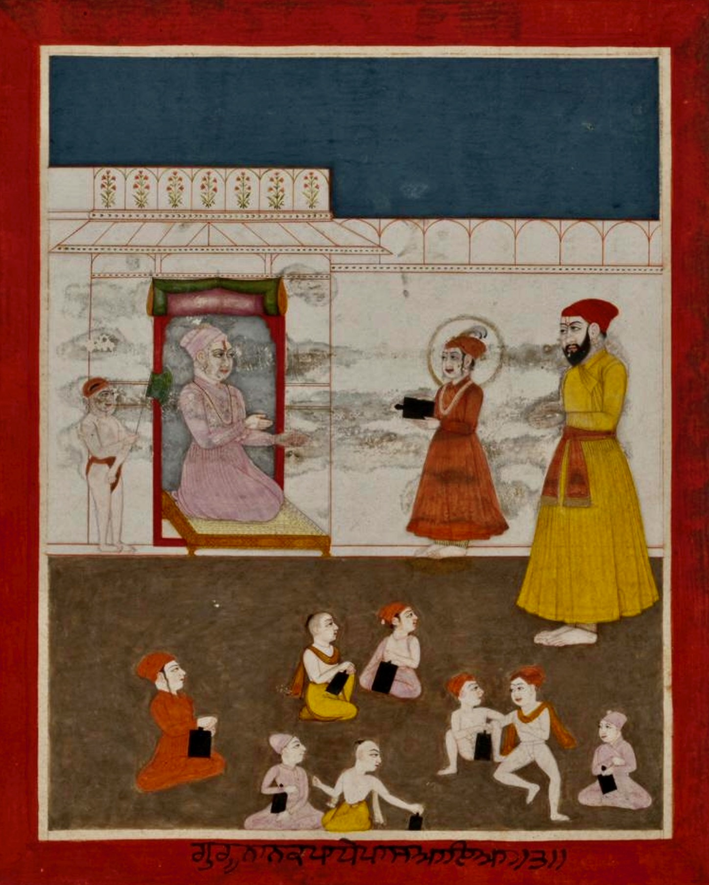 Asian Art Museum, San Francisco has a collection of manuscript folios of the popular Sikh literature called Janam Sakhi (lit. Life Stories). These date between 1800–1900, acquired in Punjab (India or Pakistan). A part of these manuscripts are in the Kapany collection. A Janam-sakhi is a miracle-filled, mythical hagiography. The earliest versions were written about 50 to 80 years after Guru Nanak's death. With time, these legends expanded and became more elaborate and depict the founder of Sikhism to possess miraculous powers. He travels extensively in these legends and the miracles are set in different locations in South Asia and the Middle East. He also meets ancient mythical figures of other Indian religions as well as Islam. The images illustrate the storyline. They also contain cultural, dress, ritual body art and social information about Sikh society, artists, writers and trends in 18th and 19th century Punjab region (India and Pakistan). Guru Nanak is always shown with a halo and is typically a larger presence than other characters. If another character in the painting is also considered sacred, they also have a halo. The character with a lute is Bhai Mardana, reflecting the hymn singing tradition. This painting shows Guru Nanak going to school. For a discussion of these Janamsakhi illustrations: Seeing-in Guru Nanak at the Asian Arts Museum This is a photograph of a two-dimensional watercolors painting on paper. It was published before 1900 CE. Therefore it qualifies for 2D-Art licensing guidelines of wikimedia commons. Any rights I have as a photographer, I donate it to wikimedia commons under CC4.0.